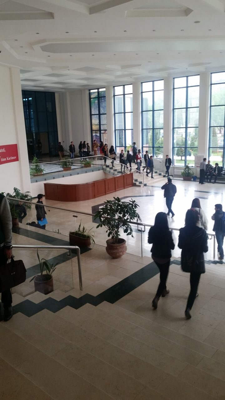 MDIST Entrence Hall